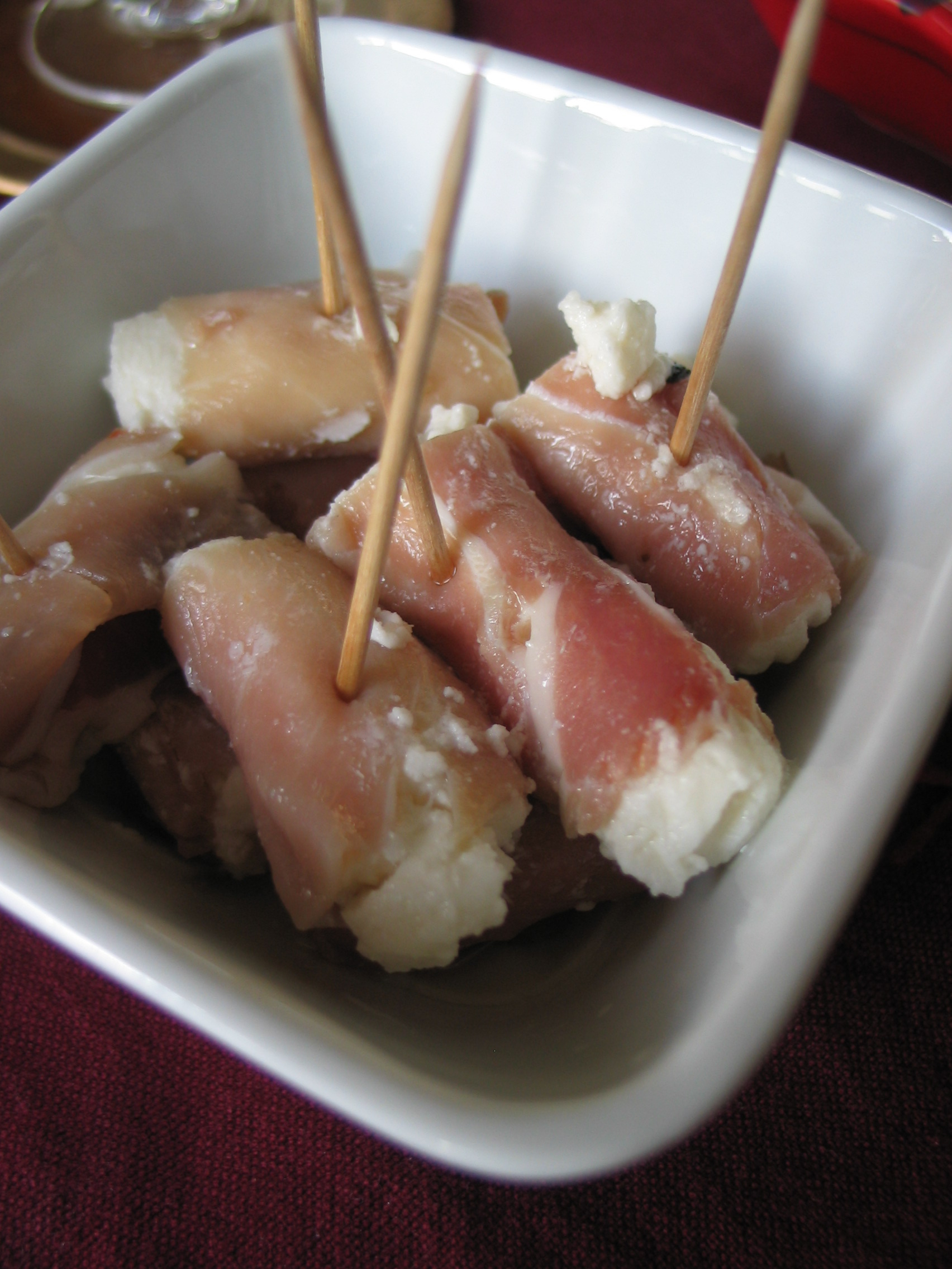 Small involtinis